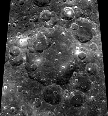 Clementine image. Landau at centre (the largest crater), Wegener at northeast, Razumov at southeast, Petropavlovsky south of Razumov, Frost at south, and Wood at northwest (which is "filling" the northwestern part of Landau's floor).